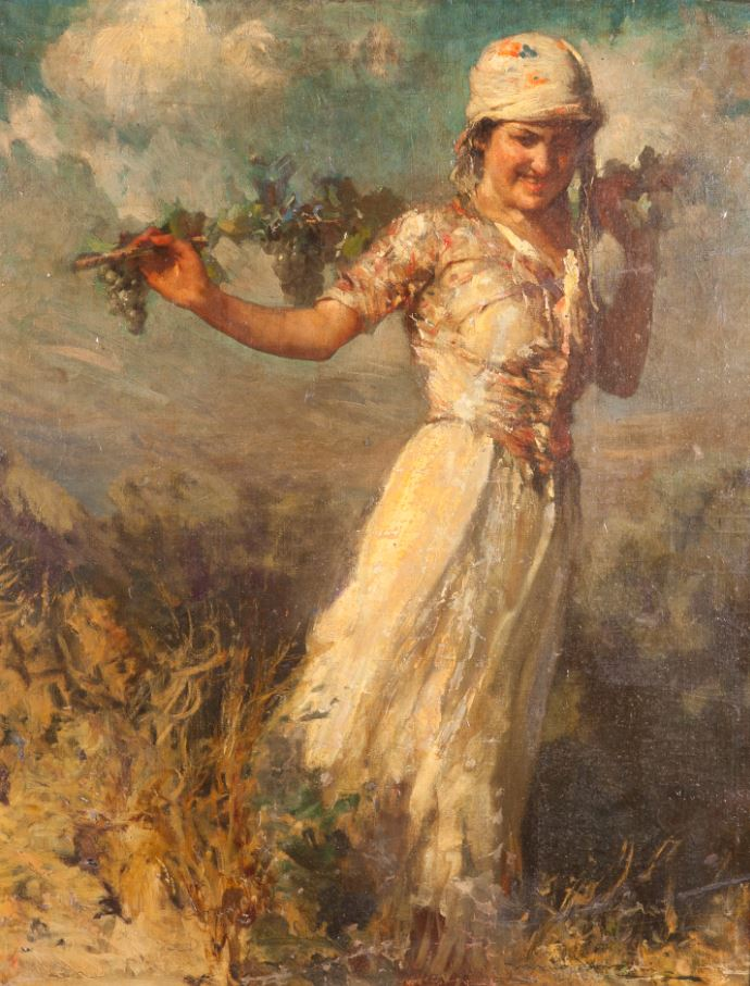 Vendemmiatrice by Mario Borgoni